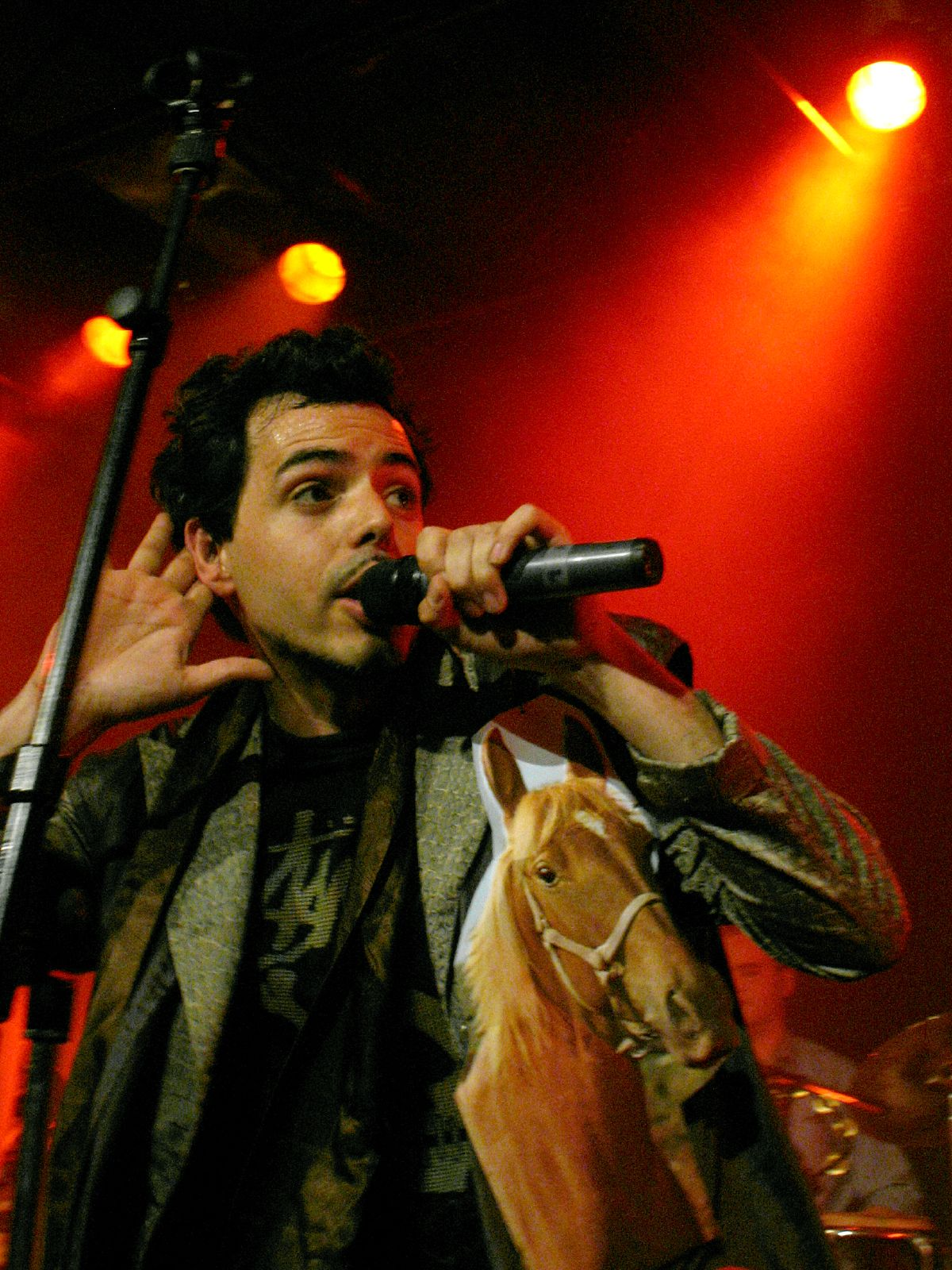 Somali-Canadian musician Mocky performing in 2006 at the Stadtgarten in Cologne, Germany.